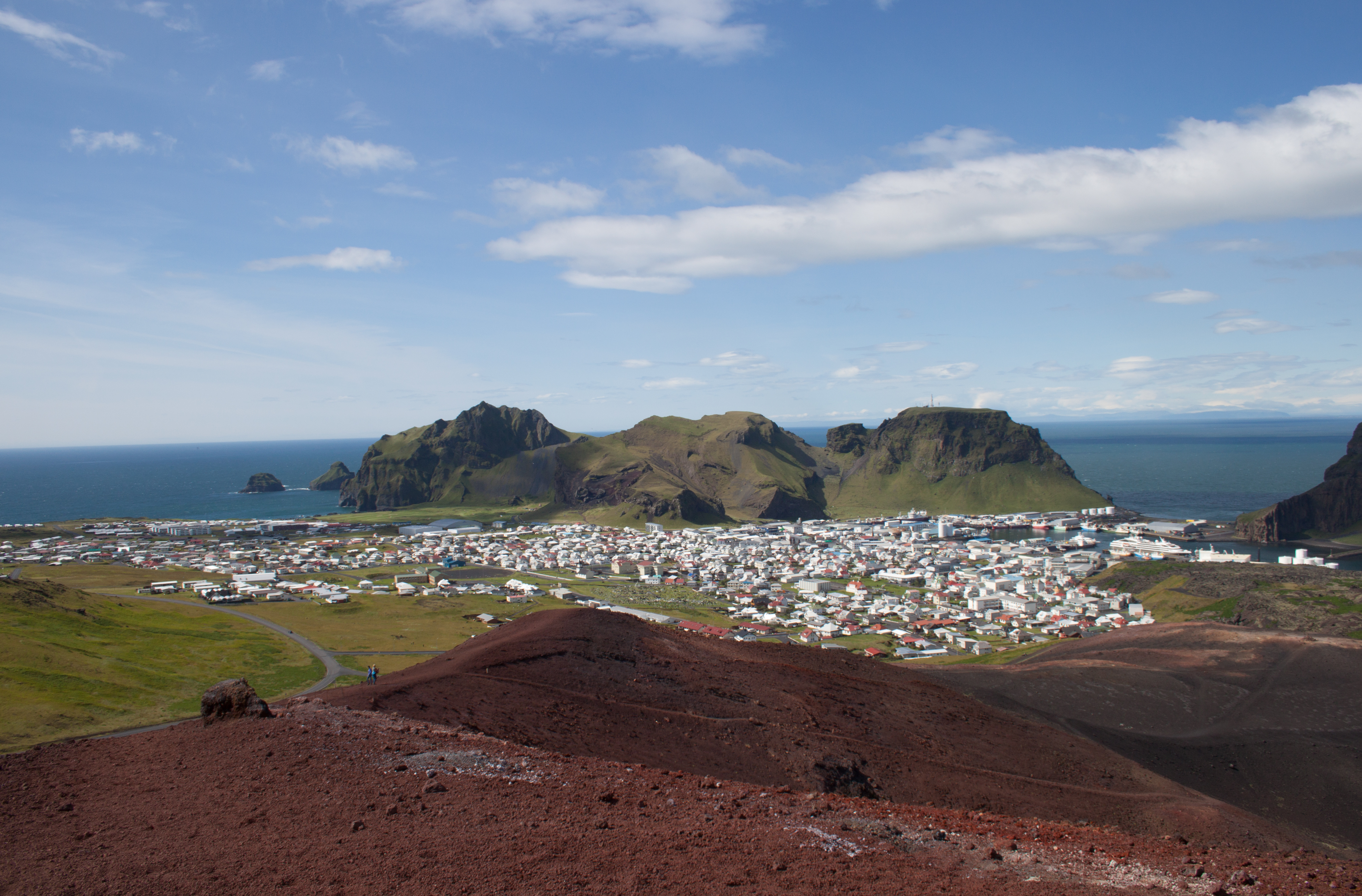 View from the top of the Eldfell